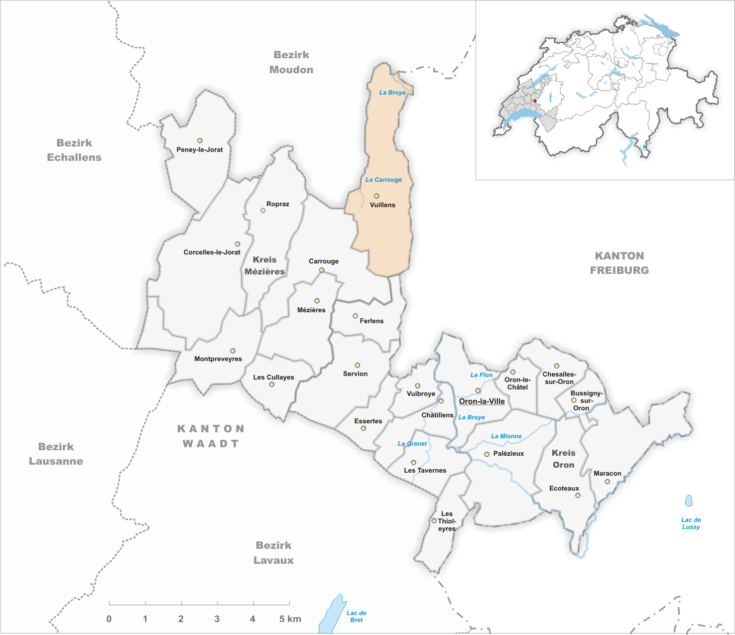 Municipality Vuillens